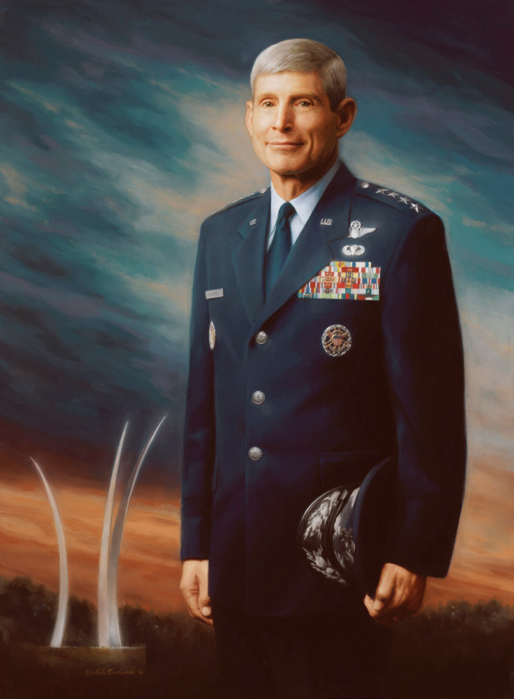 General Norton Schwartz, former Chief of Staff, United States Air Force, official portrait painted by Michele Rushworth, 34" x 46"